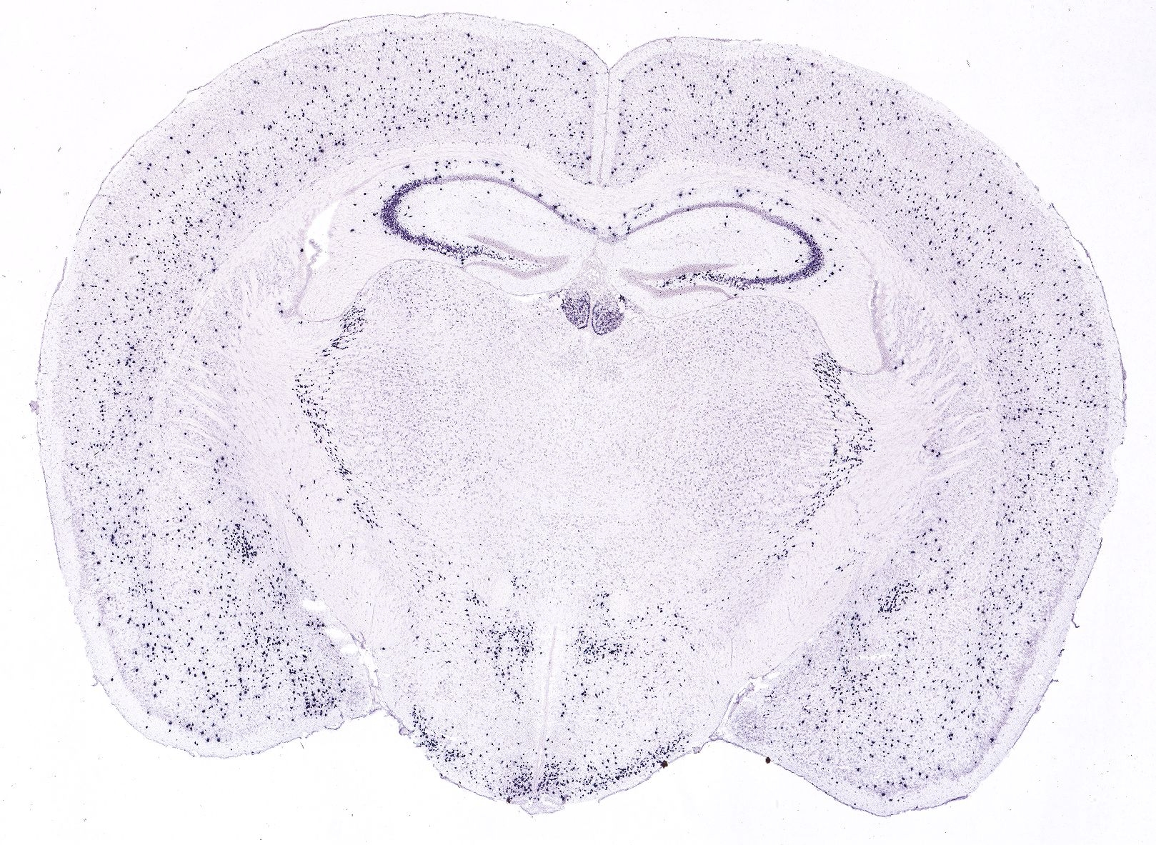 ISH image showing somatostatin gene expression in the adult mouse.